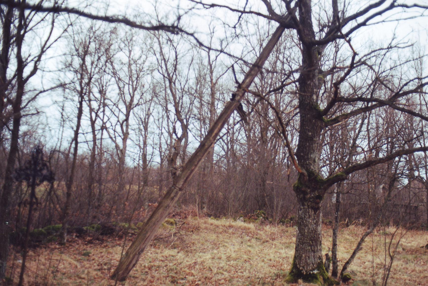 Kūlupėnai cemetery, Kretinga district, Lithuania